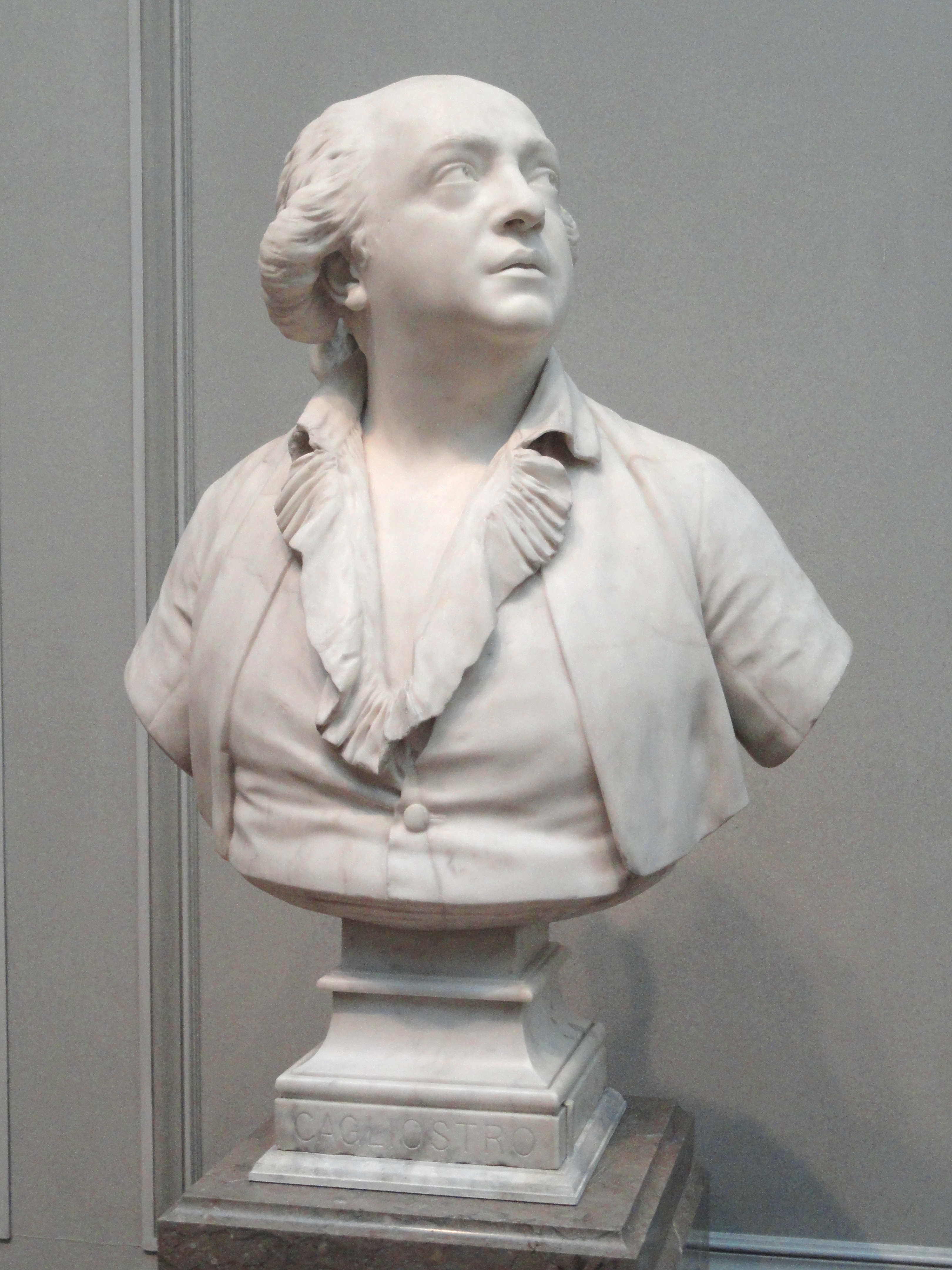 Giuseppe Balsamo, 'Conte di Cagliostro', by Jean-Antoine Houdon, 1786, marble - National Gallery of Art, Washington, DC, USA. This work is in the public domain because the artist died more than 70 years ago.